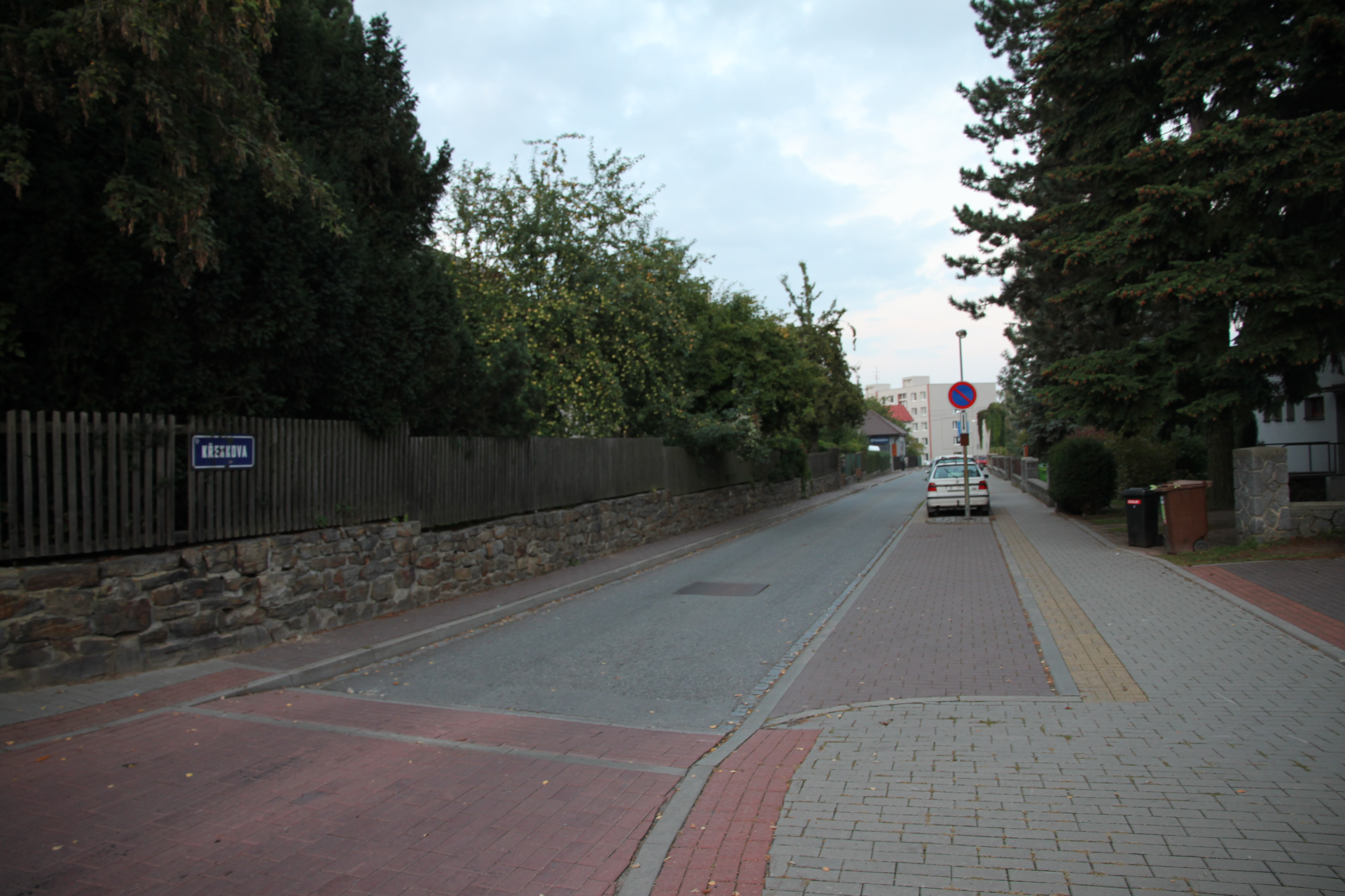 Křenkova Street in Nové Město na Moravě, Žďár nad Sázavou District, Czechia.